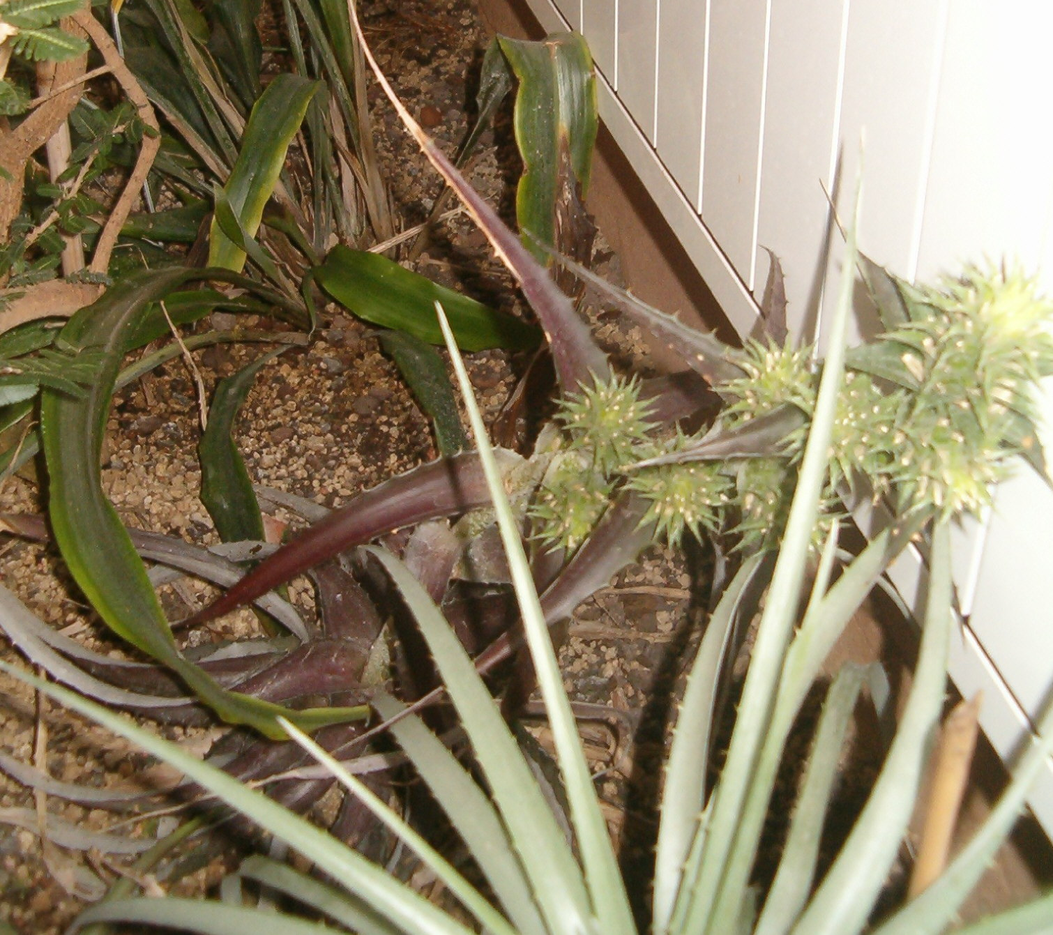 At Botanical Gardens Berlin-Dahlem Species Orthophytum maracasense